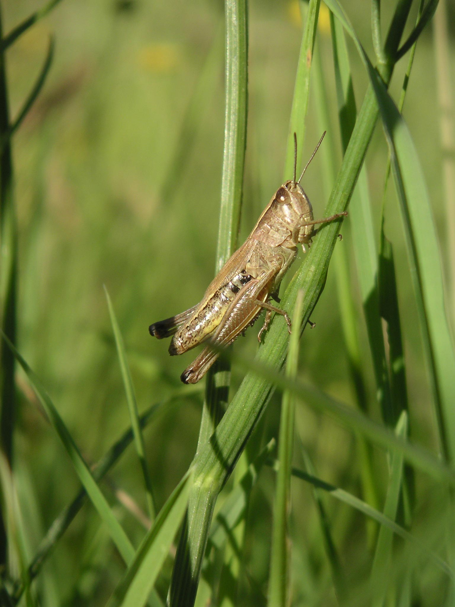 Photograph of a grasshopper(Can someone identify the species). Taken June 2004 in Exeter, Devon, England by Ambrose Buchanan.